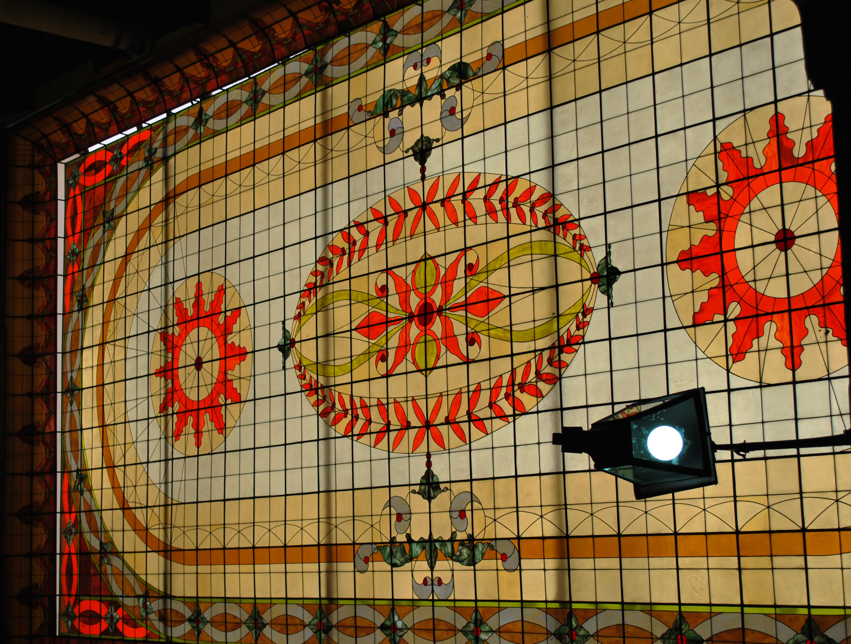 Skylight in one of the rooms of the Nacional Monte de Pieded building, located just off the main plaza of Mexico City